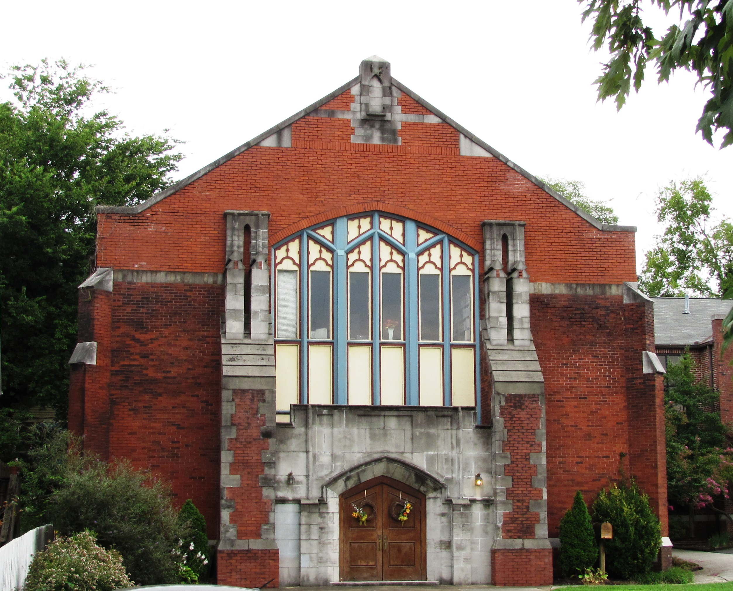 The Epworth Church building (1538 Highland Avenue) in Knoxville, Tennessee, USA. Originally constructed in the 1890s, the building was modified in 1929 after being partially destroyed by fire. It was originally home to the Ramsey Methodist Episcopal Church, which was later renamed the Epworth Methodist Church. The building is now home to Christ Chapel, an interdenominational congregation, and is a contributing property within the NRHP-listed Fort Sanders Historic District.